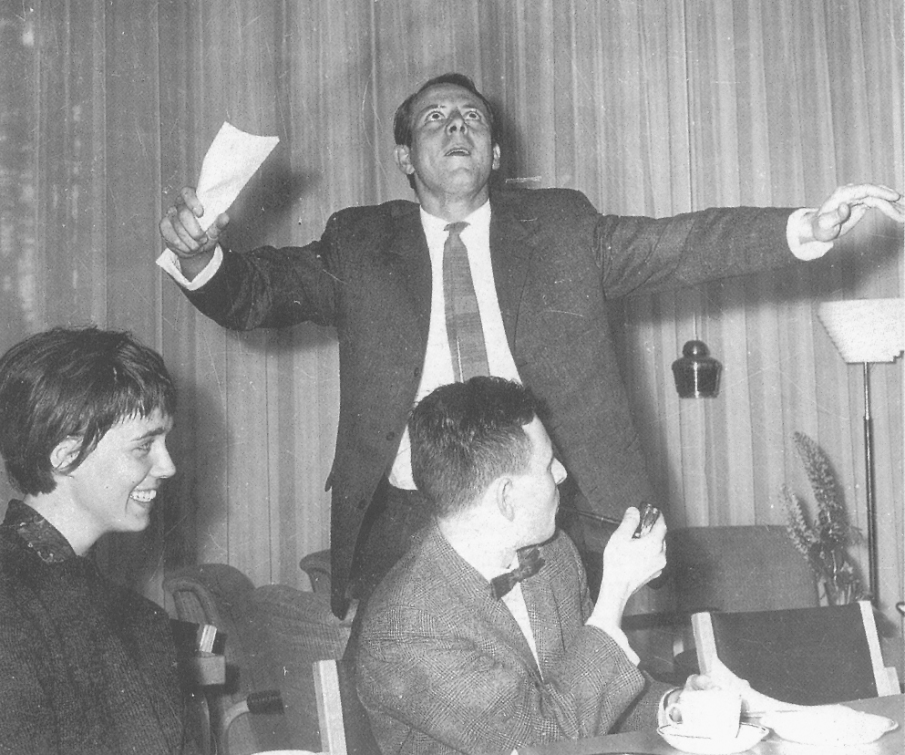 Photograph of the German composer Karlheinz Stockhausen (1928–2007) lecturing at Jyväskylän Kesä art festival in 1962. The listeners are Raija Mattila and Ilpo Saunio.